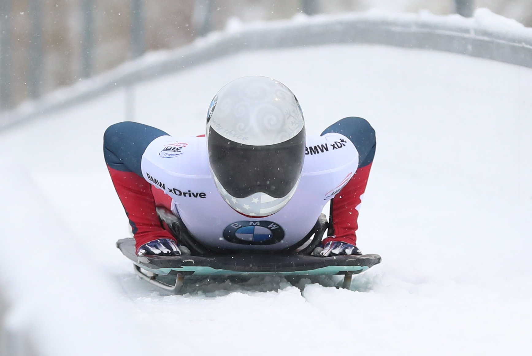 Women's World Cup race at the 2018/19 Skeleton World Cup in Altenberg